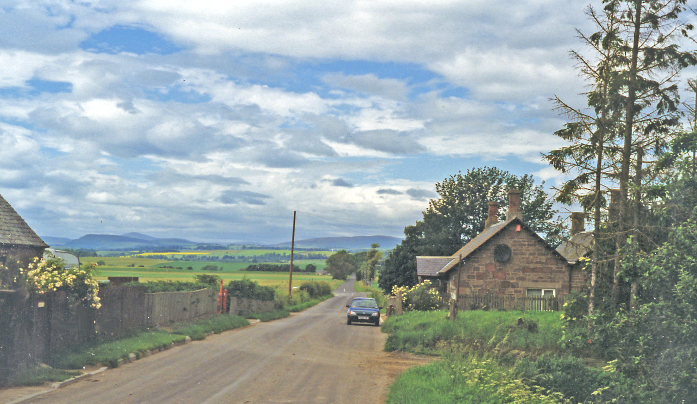 Eassie: site/remains of station, 1997. View NW, towards foothills of the Cairngorm Mountains on the horizon, including Creigh Hill (1,630 ft.). Until closed on 4/9/67, the ex-Caledonian Railway Strathmore main line, Perth - Forfar - Kinnaber Junction (- Aberdeen), ran left-to-right here through Eassie station, which closed to passengers 11/6/56, to goods 29/3/66.